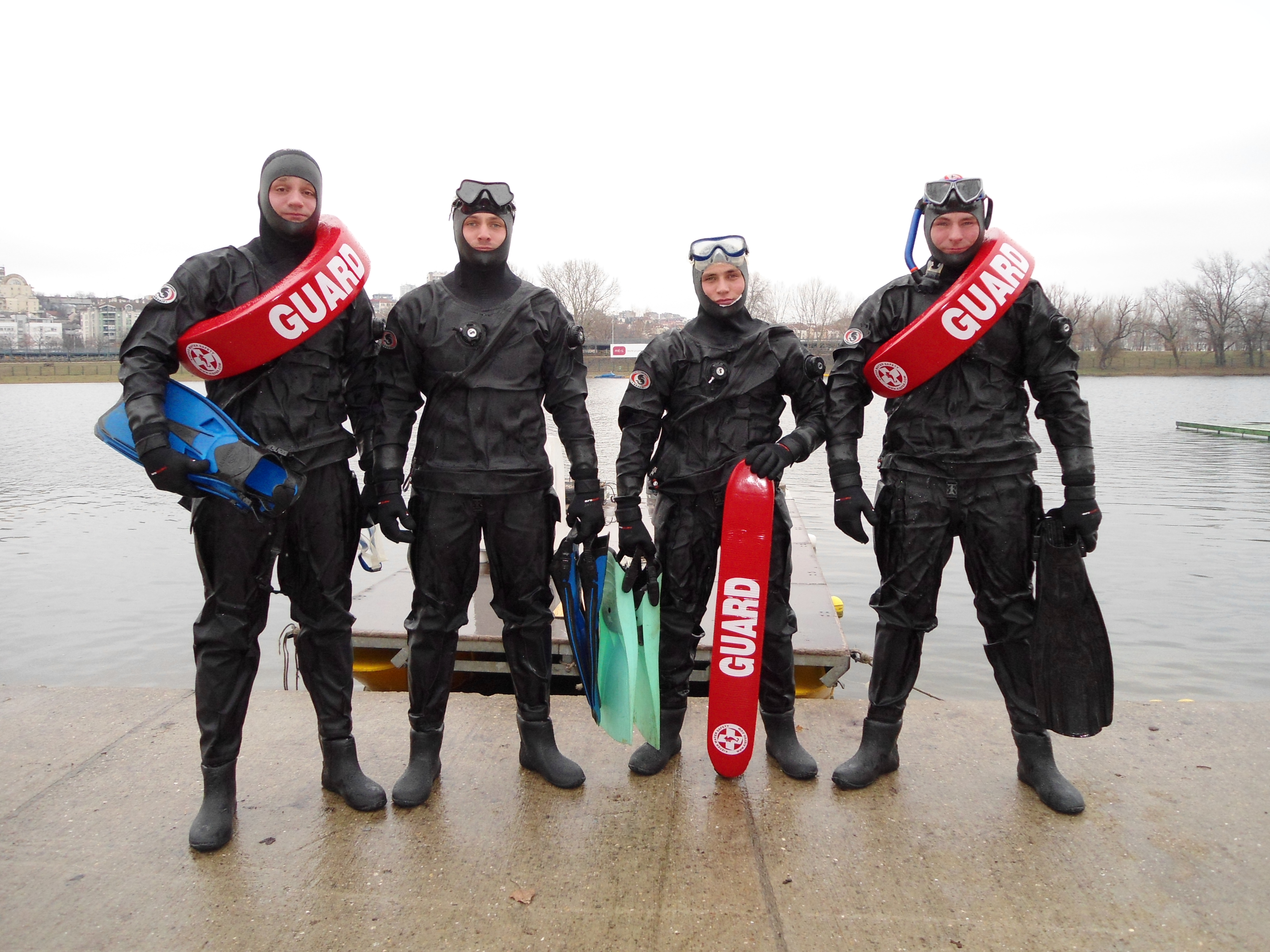 Spasioci hladnih voda